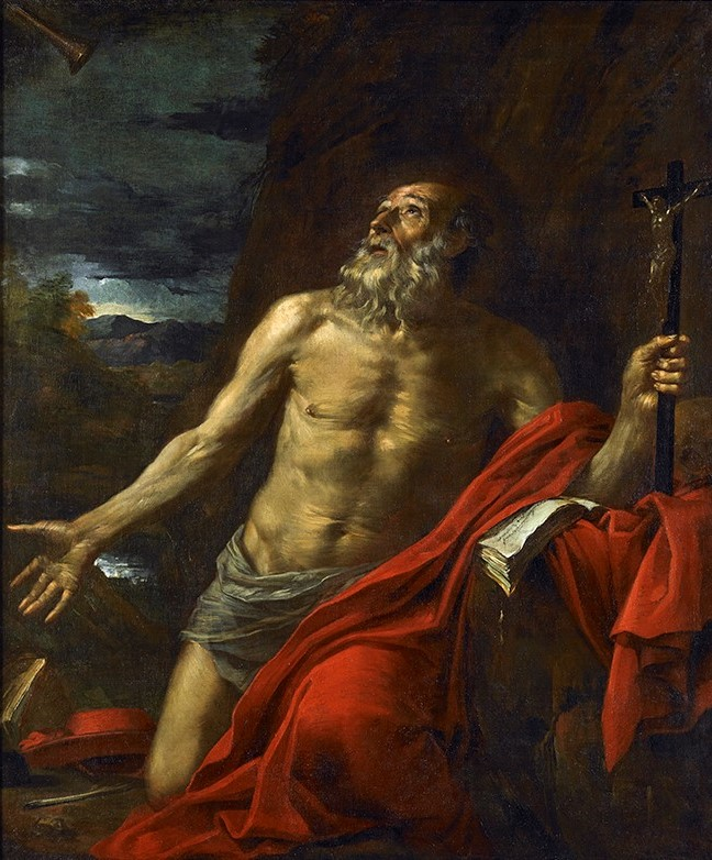 Saint Jerome, oil on canvas, unknown, 17th centry, Italy. This painting is hanged in the cathedrale Saint-John-Saint-Stephen of Besançon, France.